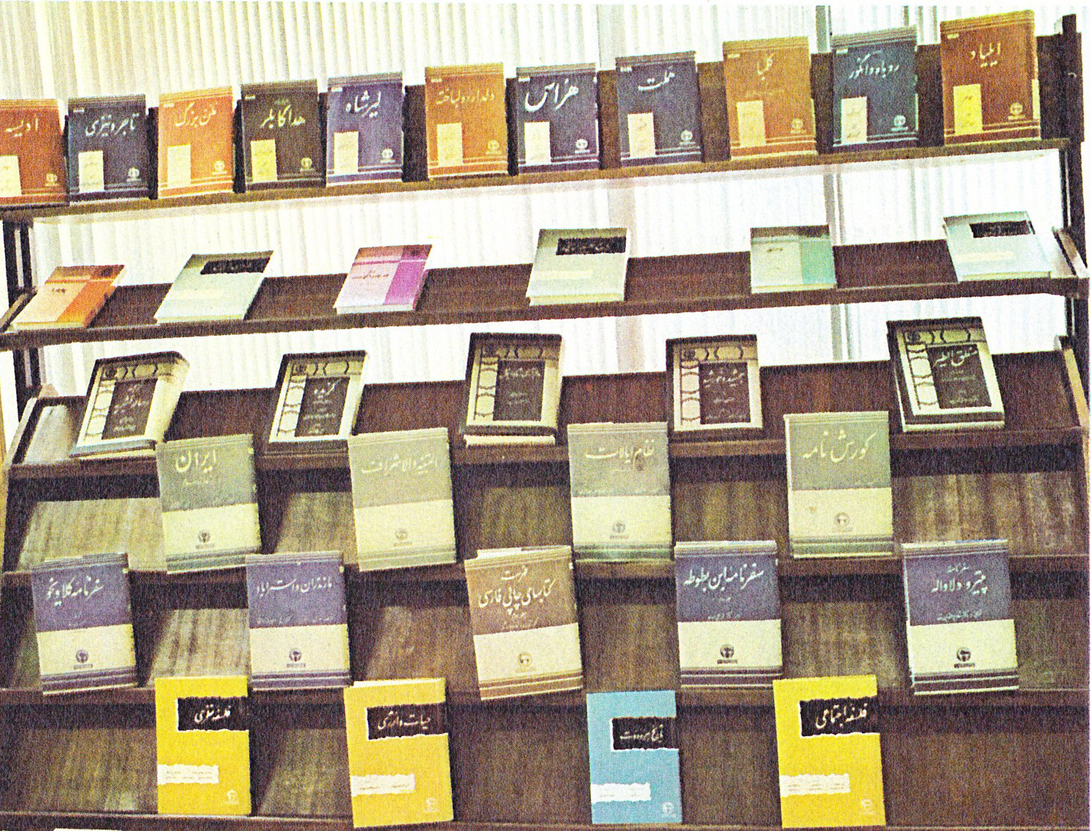 Sample of publications of Bongah-e Tarjomeh va Nashr-e Ketab